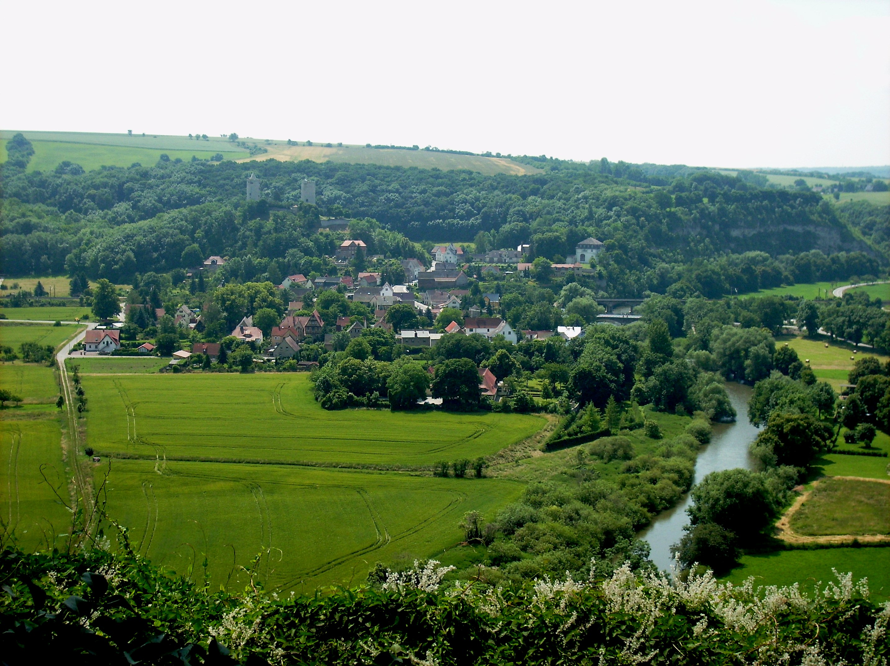 Saale valley with village and castle of Saaleck (Naumburg/Saale, district of Burgenlandkreis, Saxony-Anhalt), view from the restaurant "Himmelreich"